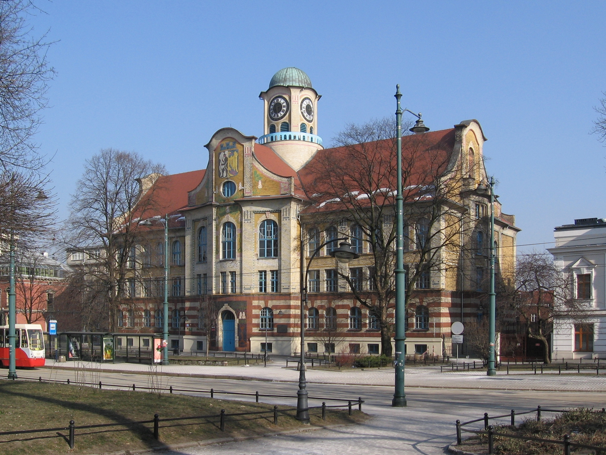 The school building in Bytom, W. Sikorskiego square 1, Poland.